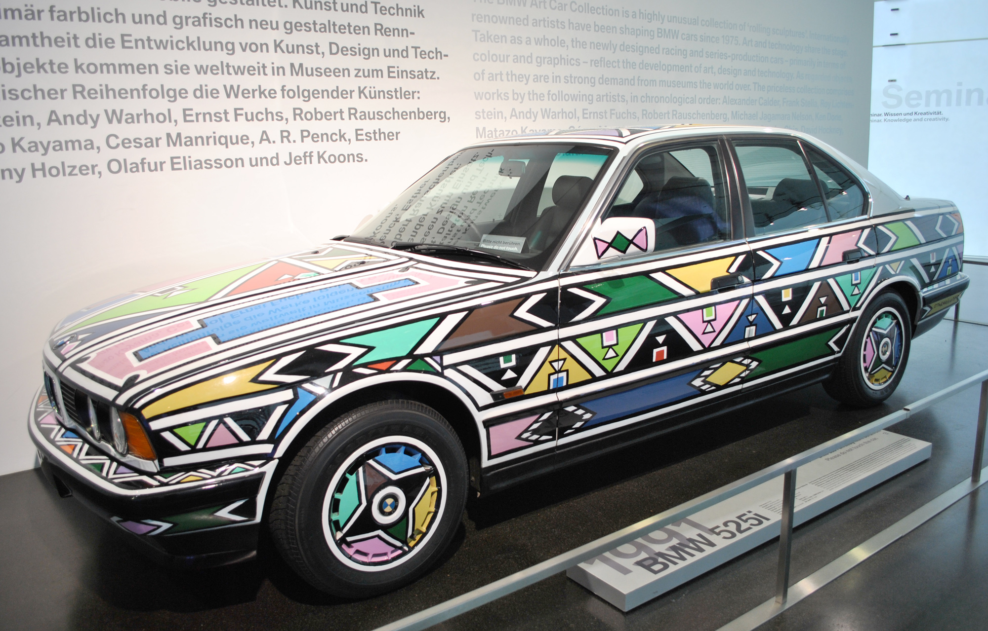 BMW Art Car (BMW 525i) designed by Esther Mahlangu at BMW Museum Munich